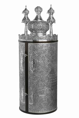 A Silver Torah Case used to hold a Sefer Torah. This Torah Case was made by Hadad Brothers in Israel.